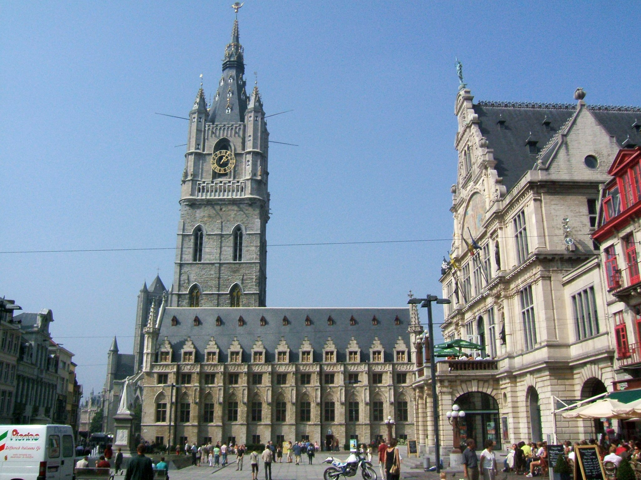 The Belfort in Gent.